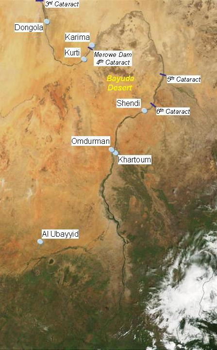 Sudan, Nile Region, Places mentioned in Shaigiya article